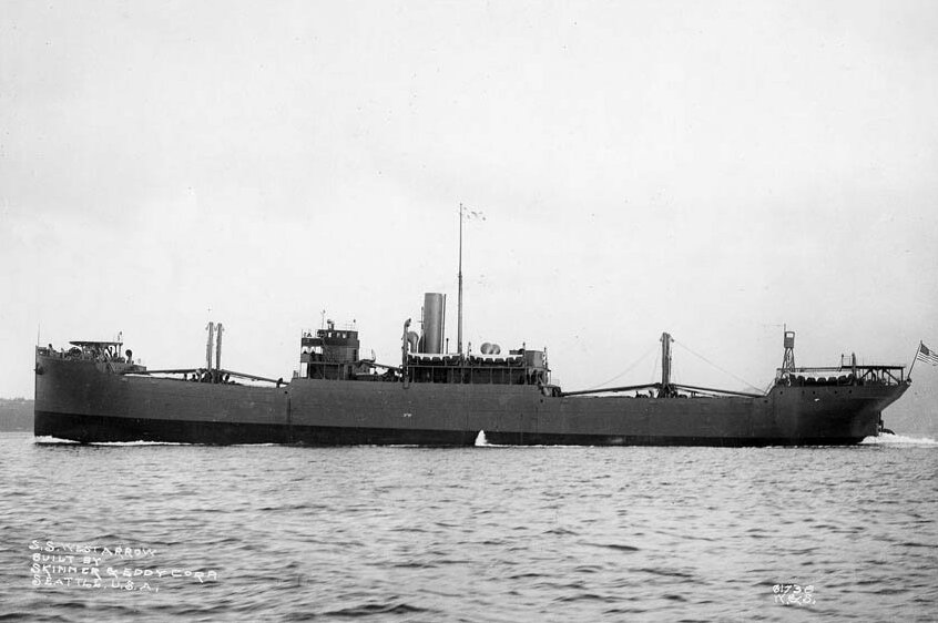 5,589 GRT cargo steamship West Arrow under way. Skinner & Eddy Corp of Seattle, Washington built launched her as J.C. Eddy on 23 May 1918. She was considered for acquisition by the US Navy in World War I and assigned the registry ID # 2585, but was not taken over. The US Shipping Board renamed her West Arrow and owned her until 1935, when the British shipping company Cairns, Young and Noble of Newcastle-upon-Tyne bought her and renamed her Black Osprey. The German submarined U-96 sank her in the North Atlantic in 1941. The original print is in National Archives' Record Group 19-LCM. US Naval Historical Center Photograph.